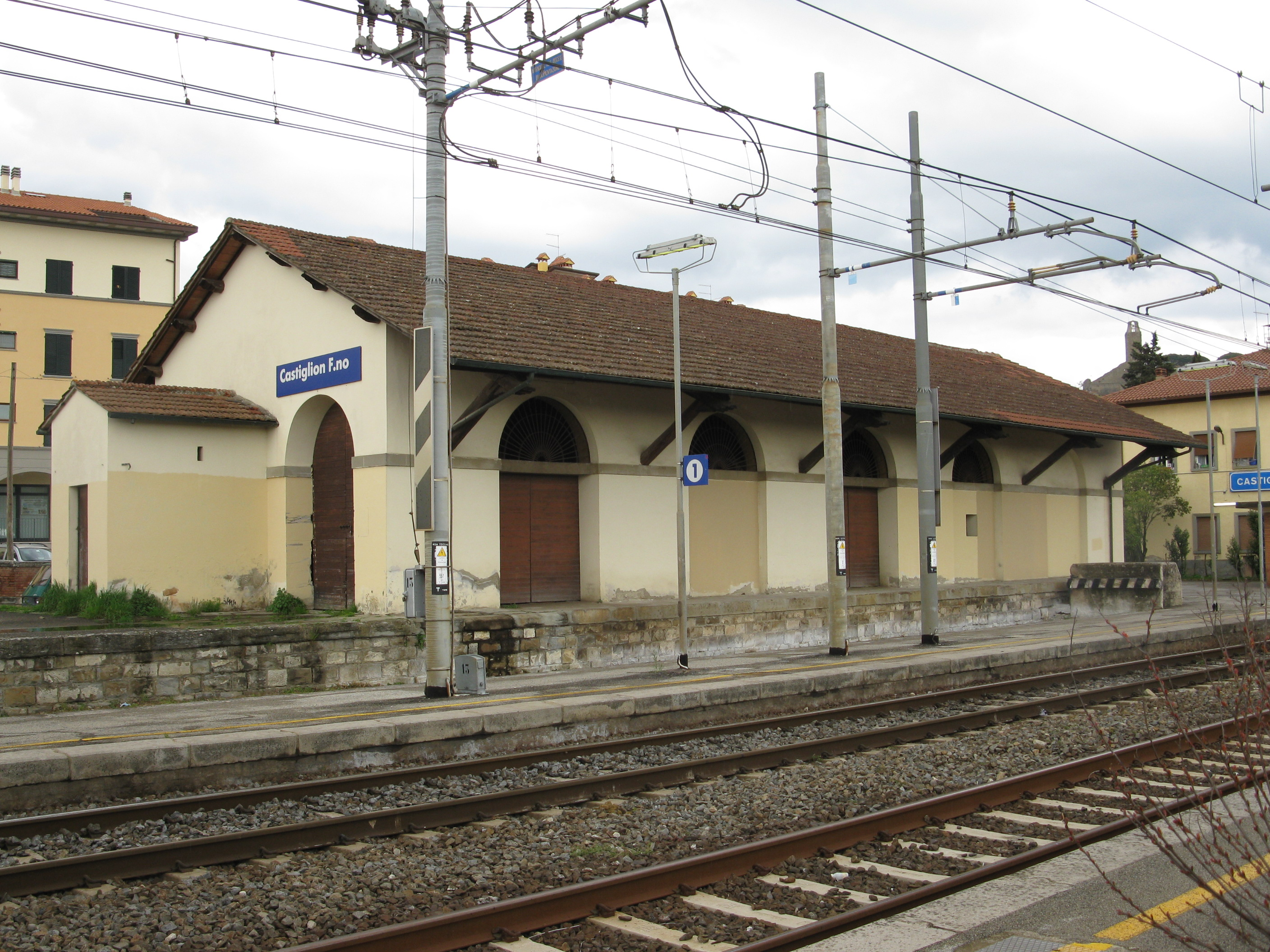 Castiglion Fiorentino railway station, old freight yard.